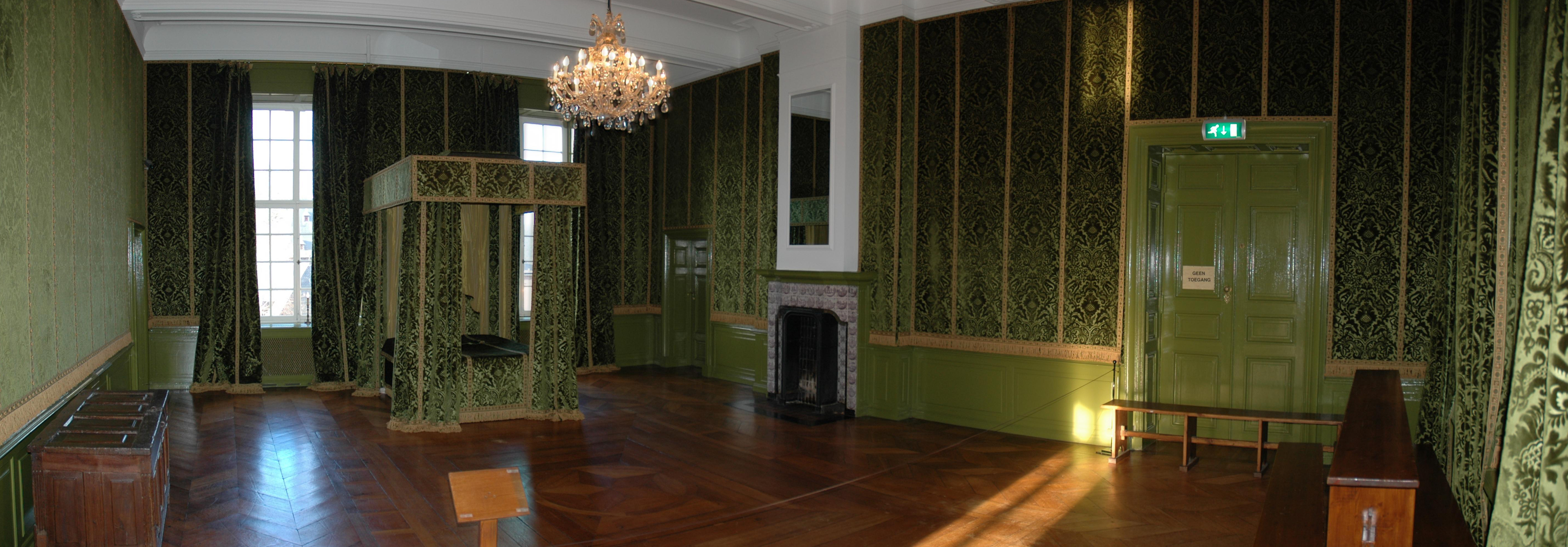 Hoensbroek Castle - Green room This panoramic image was created with Autostitch. Stitched images may differ from reality.